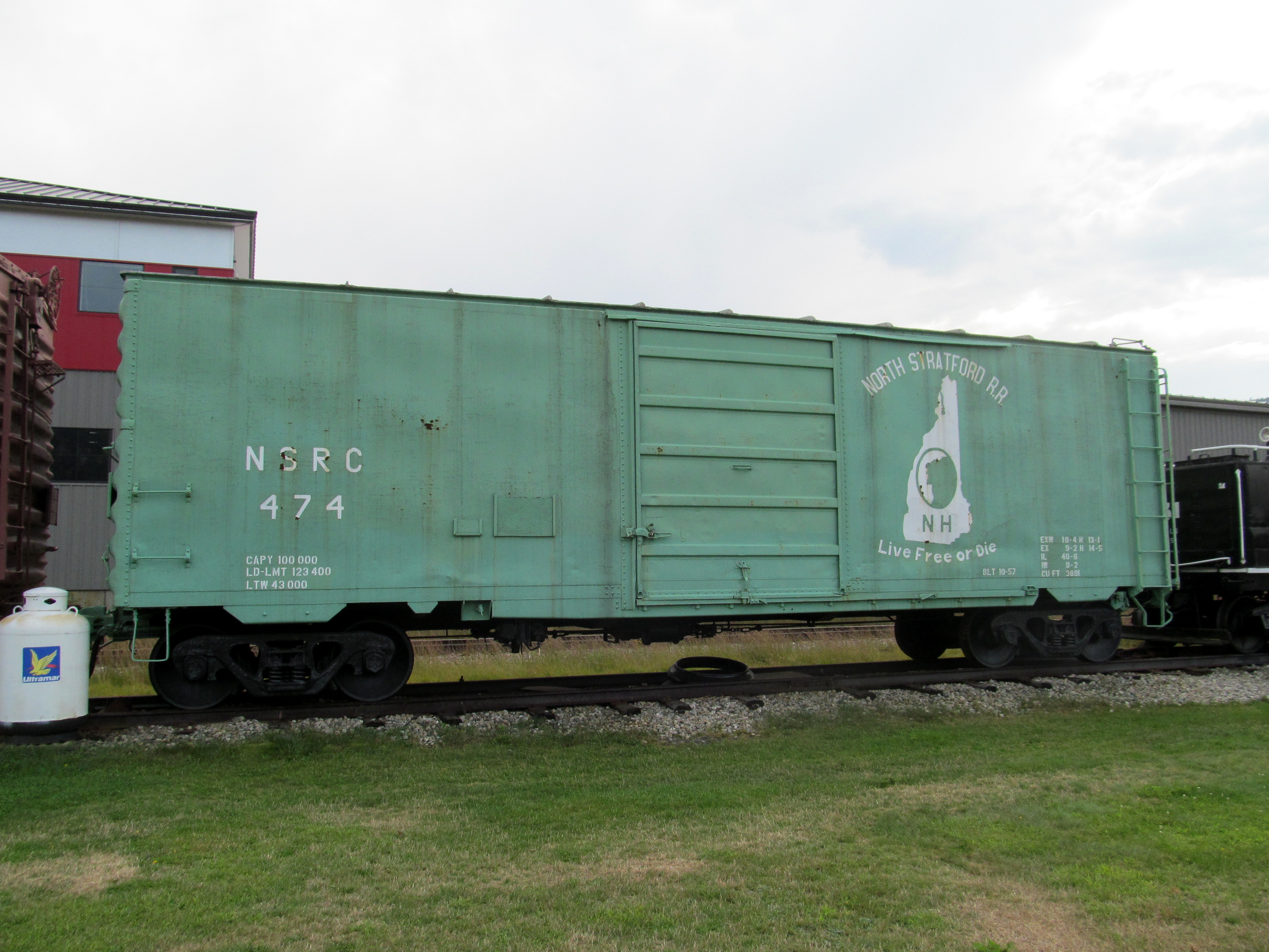 North Stratford Railroad boxcar on display at Gorham, New Hampshire in August 2012